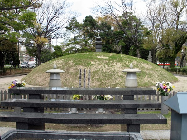 This is a picture of the Atomic Bomb Memorial Mound in Hiroshima, Japan.